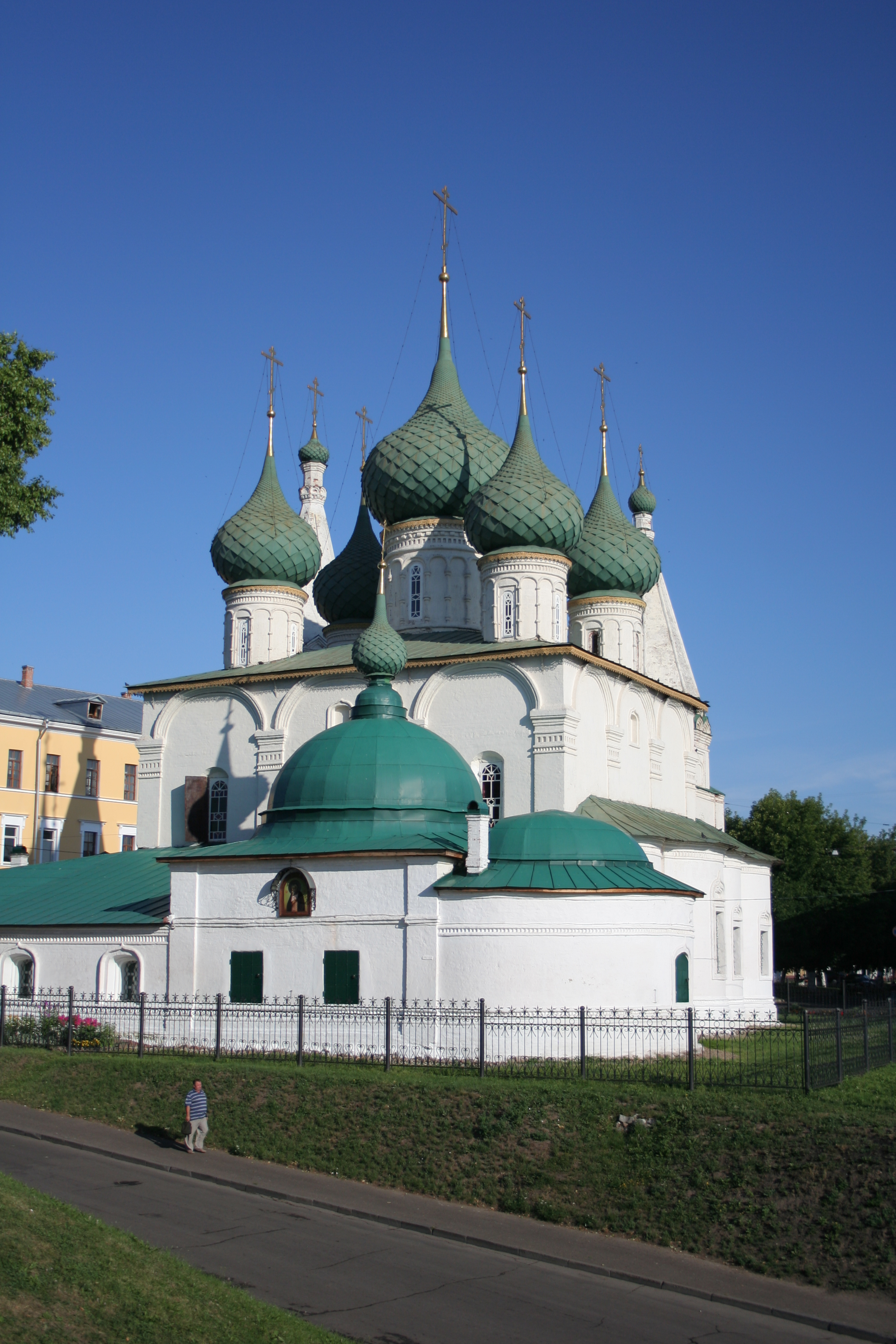 Church of the Saviour in the town (built 1672) in Yaroslavl, Russia